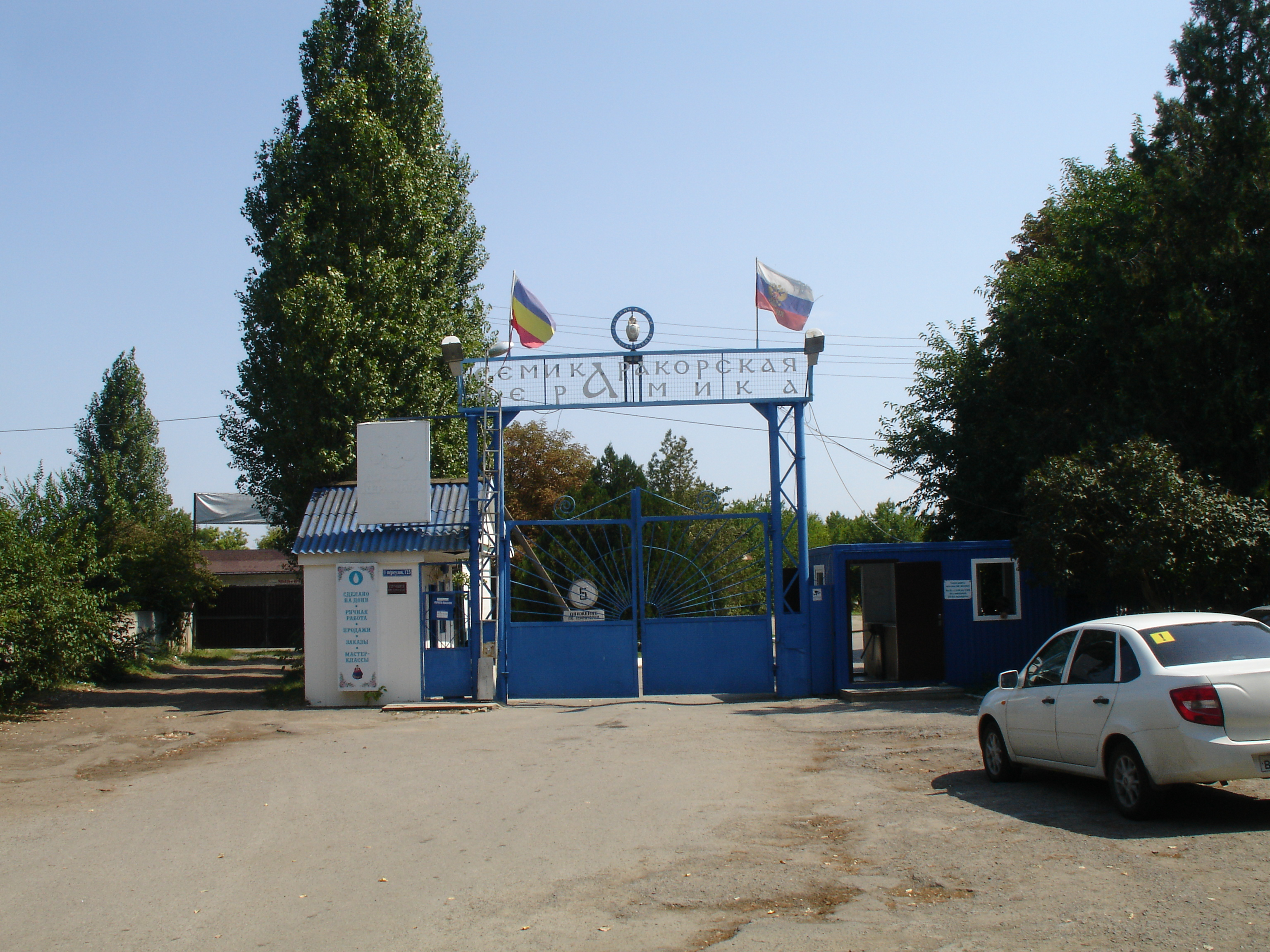 Semikarakorsk Ceramics gate.